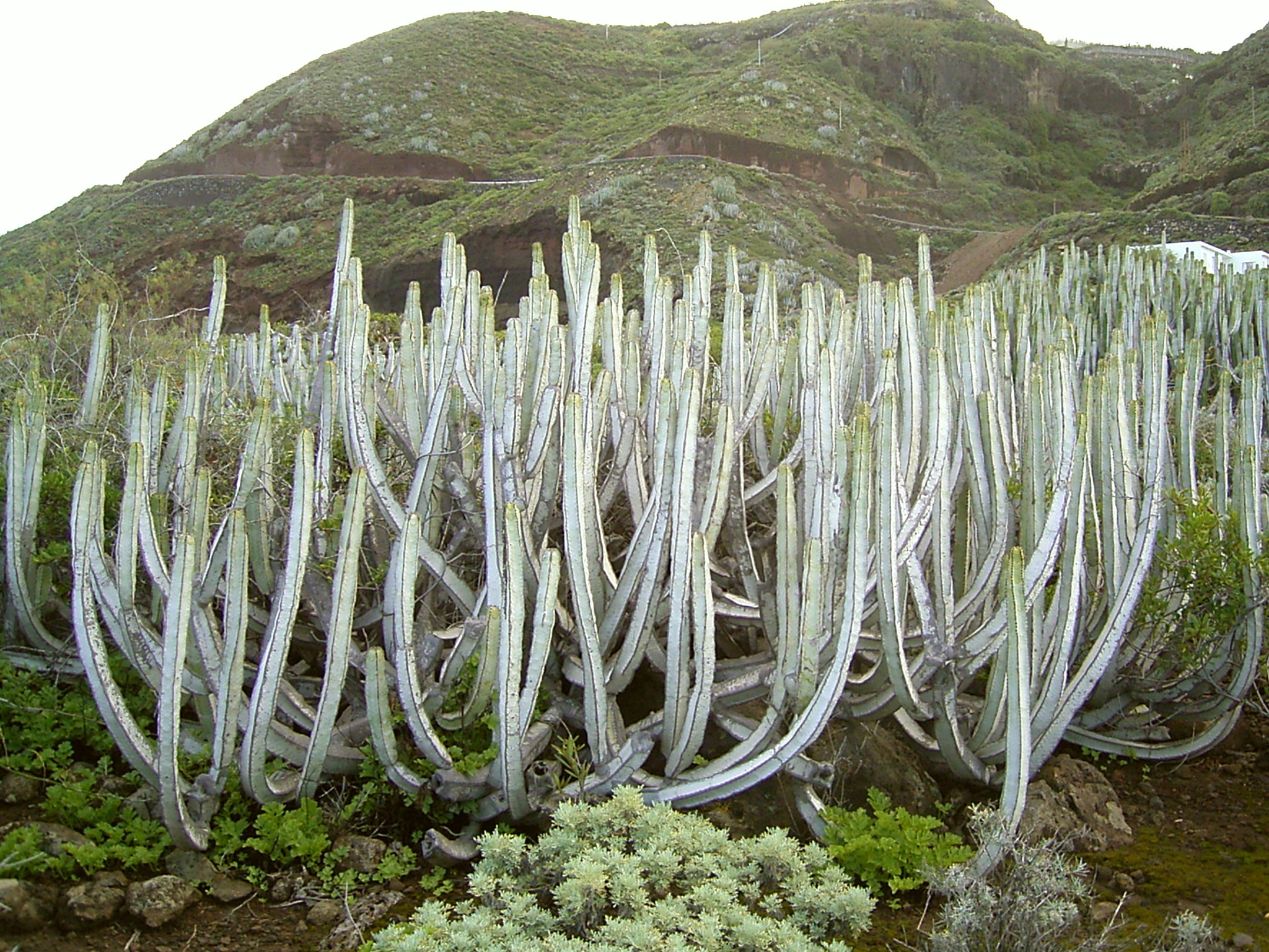 Euphorbia canariensis growing in La Fajana, Barlovento, La Palma, Canary Islands